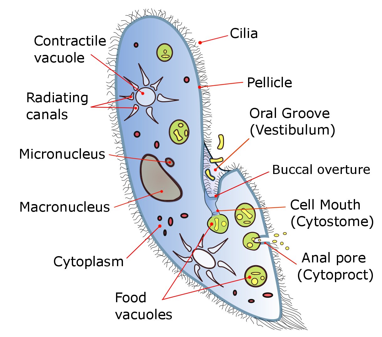 A labeled diagram of Paramecium in .png format.